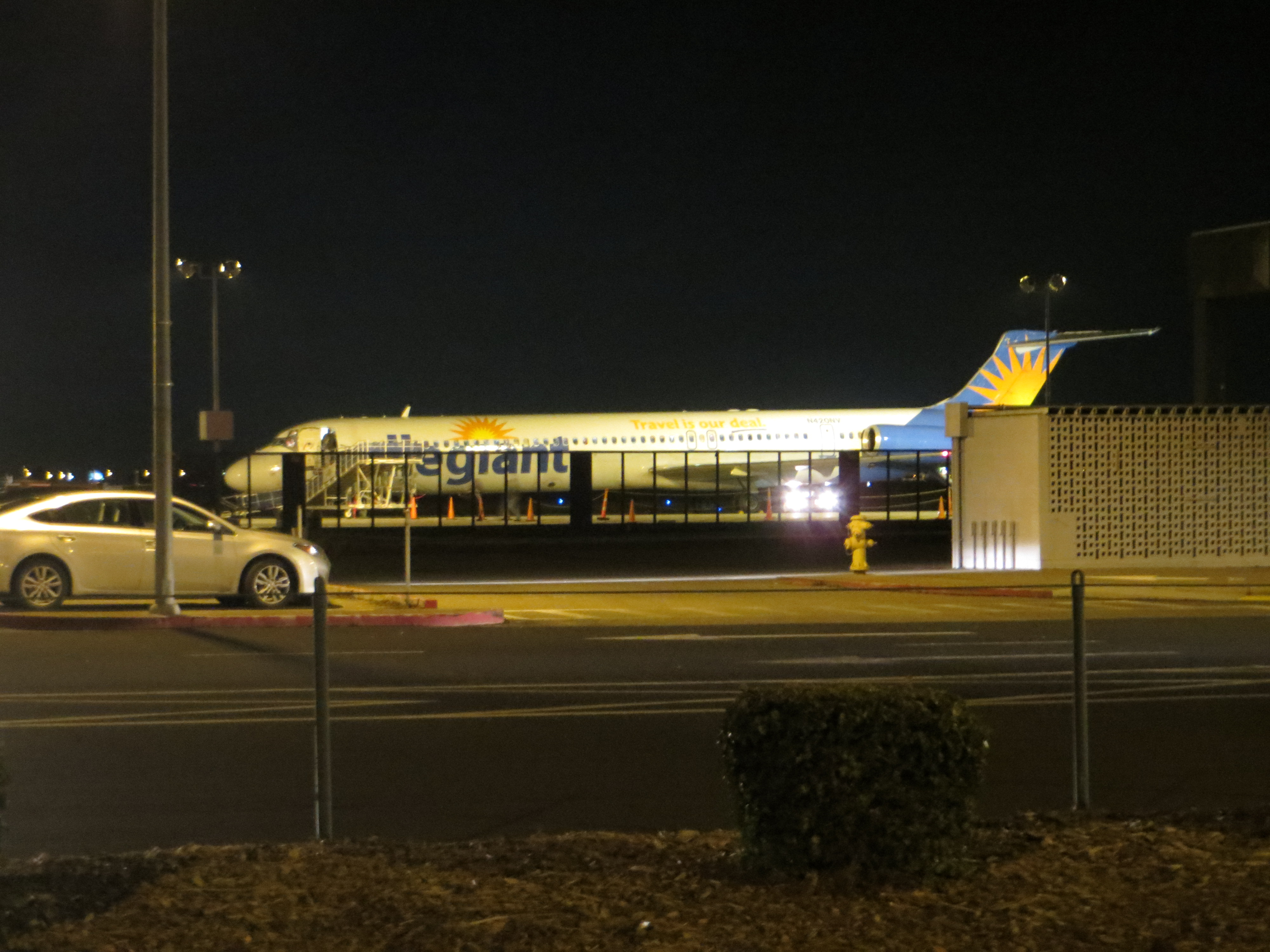 Allegiant MD-82 at Stockton Airport, having arrived as G4528 from Las Vegas